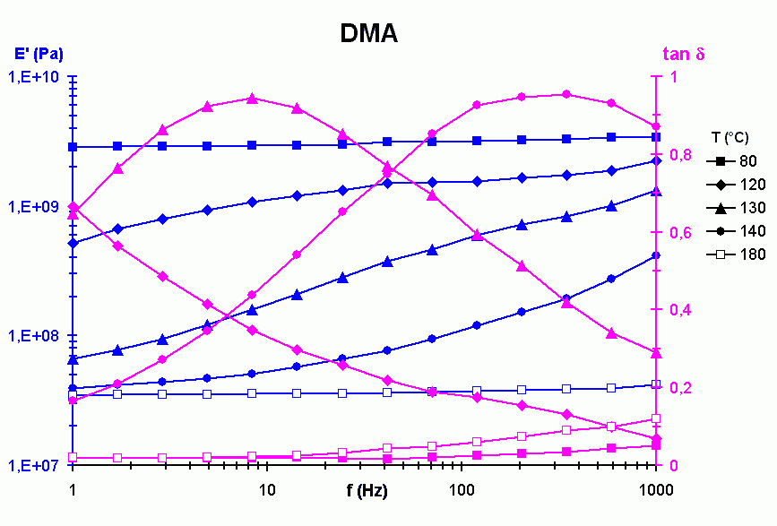 DMA test: double frequency/temperature sweep on two viscoelastic properties of a polymer.